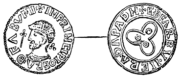 Silver penny/penning minted for Canute the Great. Slagelse mint (in Denmark). Obverse: Canute's head left, sceptre before, legend "+IN PRINCIPIO ERAĐ FABUMI". Reverse: symbol of trinity, legend "+EĐ FARBUM ERAĐ APAĐ M".